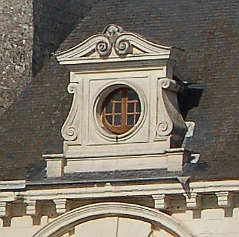 Dormer window with Bull's-eye at the château de Chenonceau